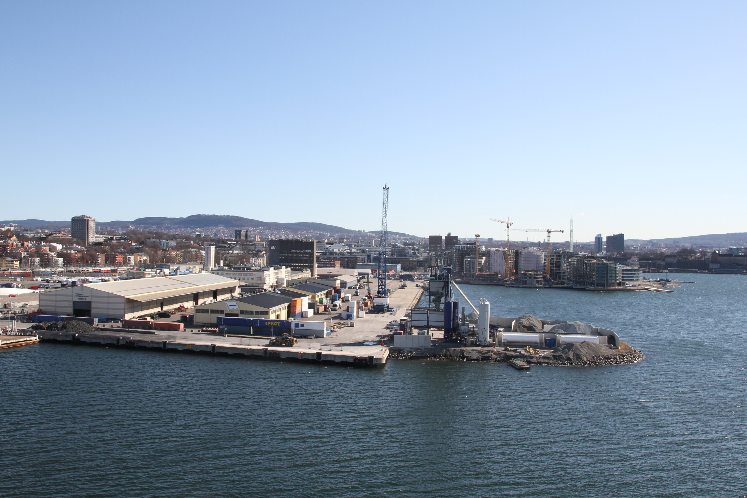 Filipstad Quay, Oslo